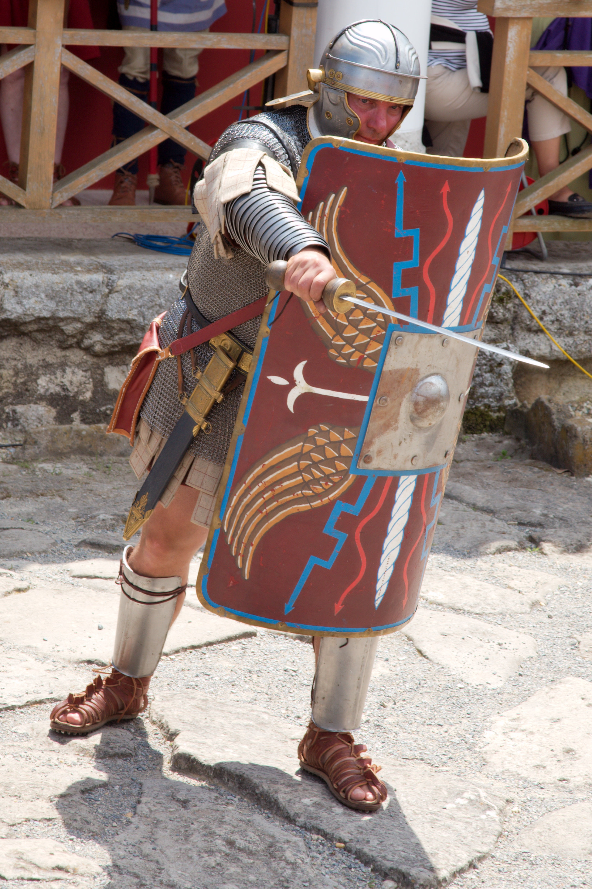 Reenactment of a roman legionaire from second century a.c.